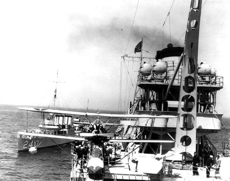 On board USS Indianapolis (CA-35) looking aft from the forward superstructure as the USS Sturtevant (DD-240) comes alongside, during the Presidential fleet review off New York City, 31 May 1934. A Curtiss O2U scout floatplane is on Indianapolis ' starboard catapult. Note the ship's aircraft crane, searchlights, and the Presidential Flag flying from the mainmast peak. Official U.S. Navy Photograph taken from